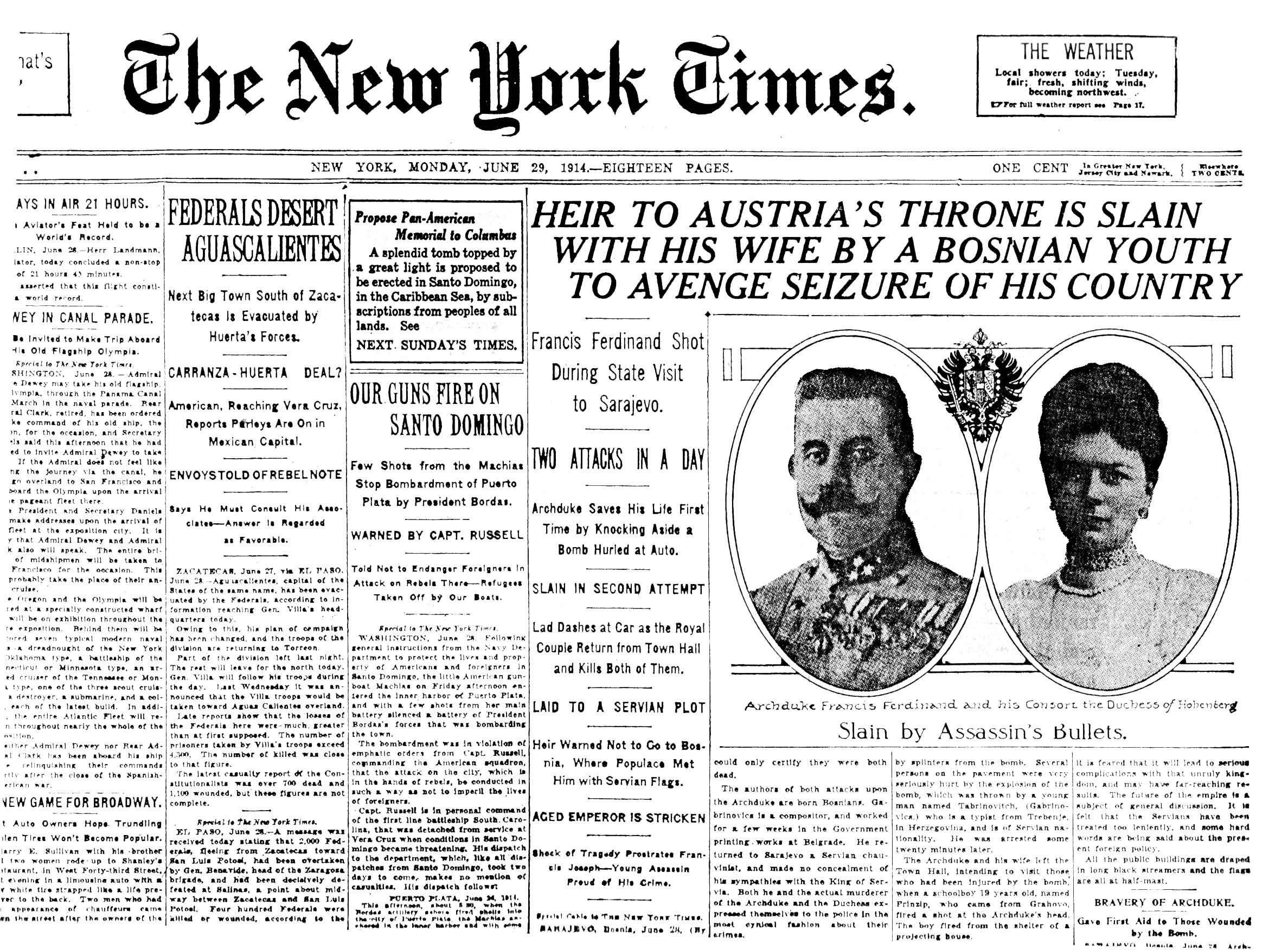 Headline of the New York Times June-29-1914